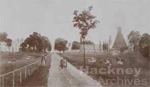 Author Unknown. Watercolour, circa 1880. Image held by Hackney Archives (Image Ref: P10615)